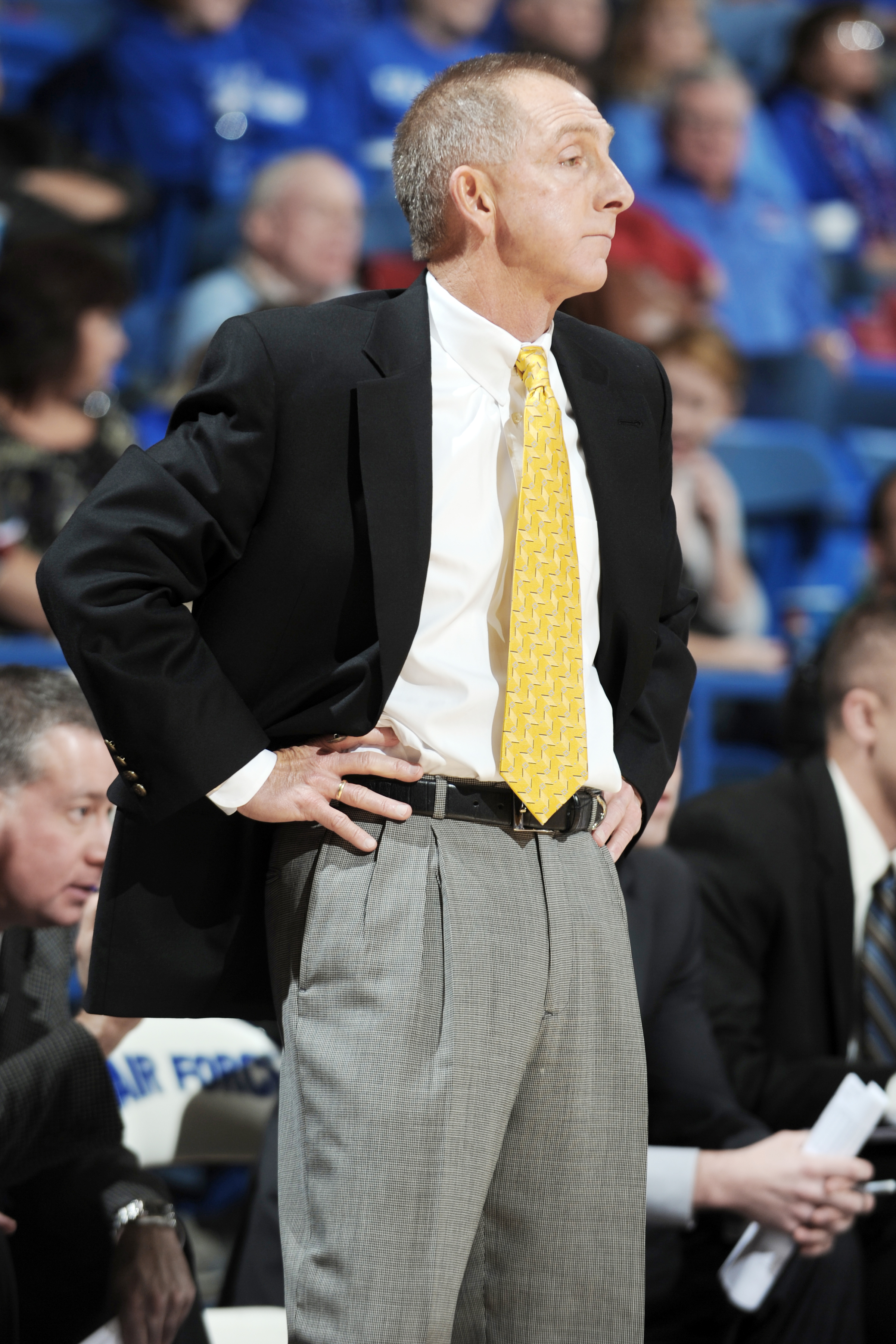 U. S. Air Force Academy head coach Jeff Reynolds watches the action during the Falcons' game against Northern Arizona at the Academy's Clune Arena Dec. 19, 2009. Air Force lost the game 60-52. (U.S. Air Force photo/J. Rachel Spencer)